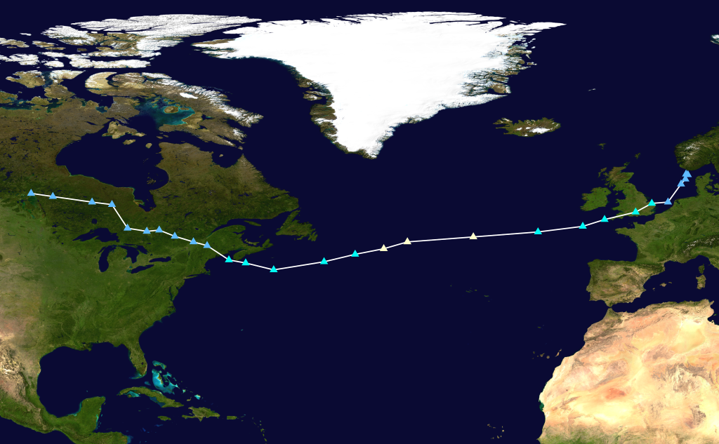 Track map of Storm Fabien of the 2019-20 European windstorm season. The points show the location of the storm at 6-hour intervals. The colour represents the storm's maximum sustained wind speeds as classified in the Saffir–Simpson scale (see below), and the shape of the data points represent the nature of the storm, according to the legend below. Saffir–Simpson scale Tropical depression≤38 mph≤62 km/h Category 3111–129 mph178–208 km/h Tropical storm39–73 mph63–118 km/h Category 4130–156 mph209–251 km/h Category 174–95 mph119–153 km/h Category 5≥157 mph≥252 km/h Category 296–110 mph154–177 km/h Unknown Storm type Tropical cyclone Subtropical cyclone Extratropical cyclone / Remnant low / Tropical disturbance / Monsoon depression